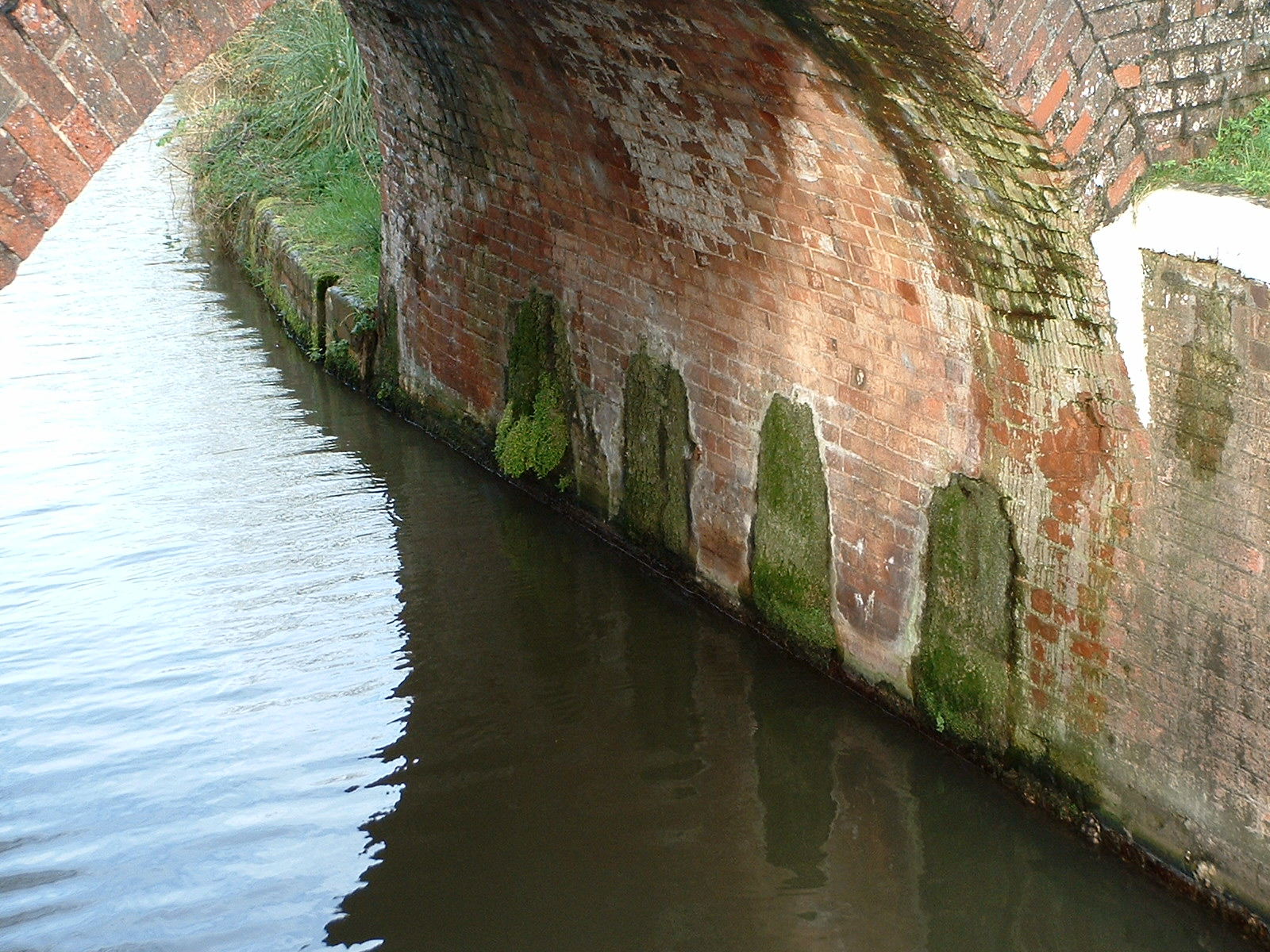 Demolition chambers - Mausel Lock on the Bridgwater-Taunton Canal OS reference ST308298 OS reference ST308298 Easy access from towpath. Car park nearby.